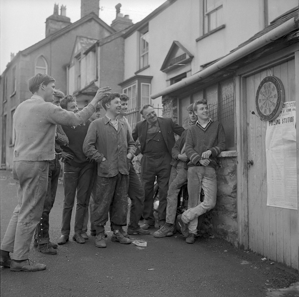 Teitl Saesneg/English title: Mr Ifor Williams, the carpenter from Cynwyd near Corwen and his workers playing darts at lunchtime. Ffotograffydd/Photographer: Geoff Charles Dyddiad/Date: 17/12/1964 Cyfrwng/Medium: Negydd ffilm / Film negative Cyfeiriad/Reference: (gch36941) Rhif cofnod / Record no.: 3472016 Rhagor o wybodaeth am gasgliad Geoff Charles yn Llyfrgell Genedlaethol Cymru More information about the Geoff Charles Collection at the National Library of Wales Mae ffotograffau Geoff Charles hefyd yn rhan o Broject Europeana Libraries Geoff Charles' photographs also form part of the Europeana Libraries Project